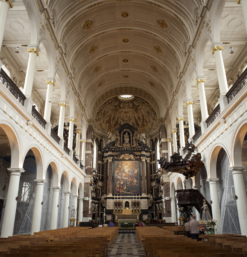 church, baroque